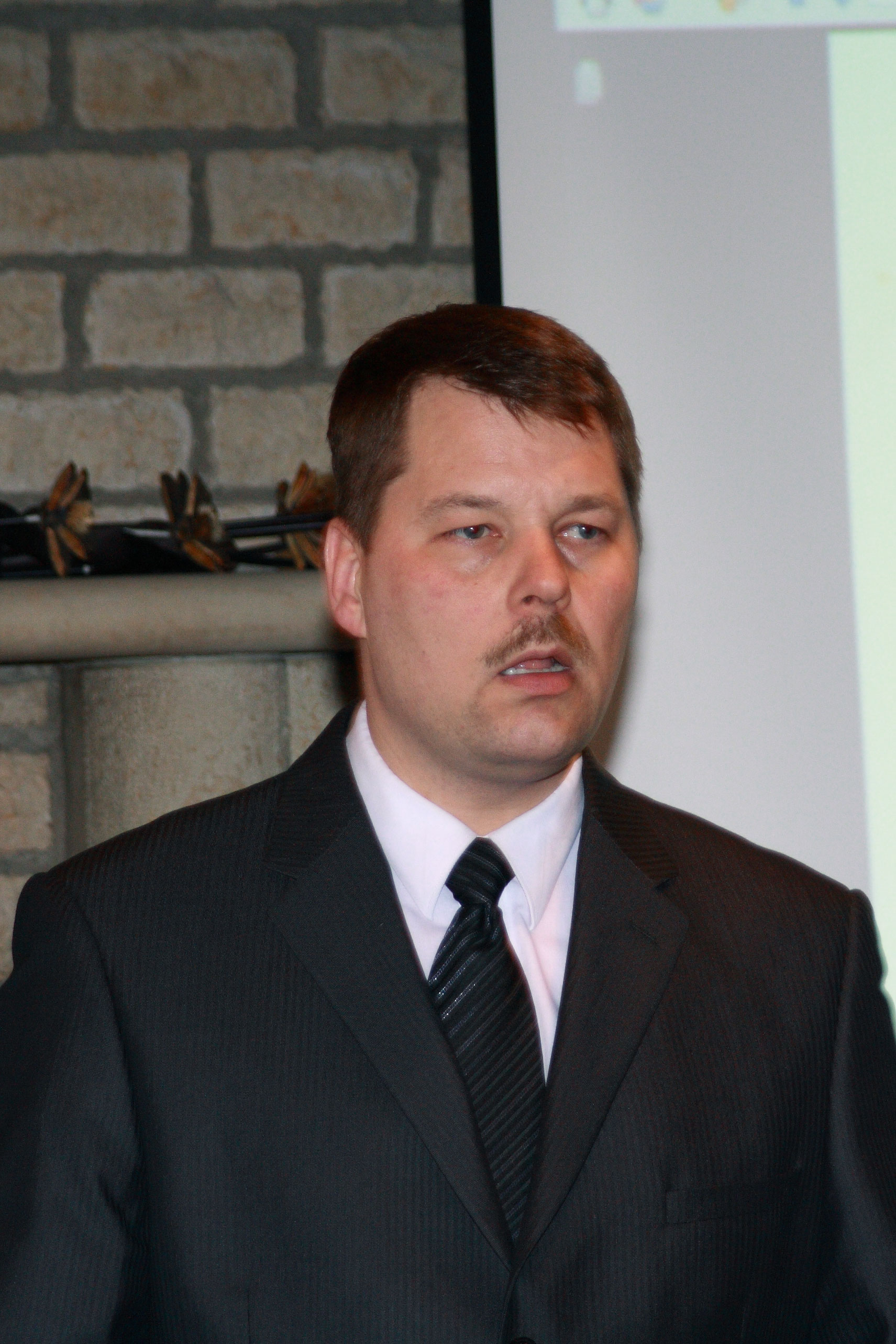 Neeme Suur